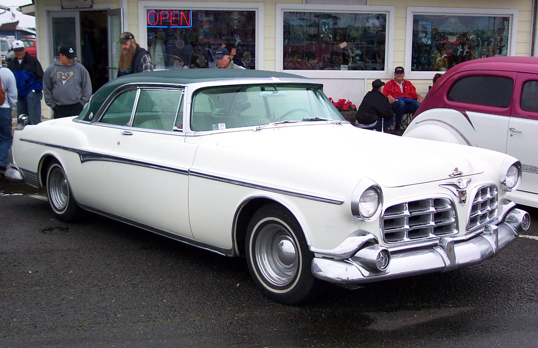 Small car show in Westport, Washington 2007.